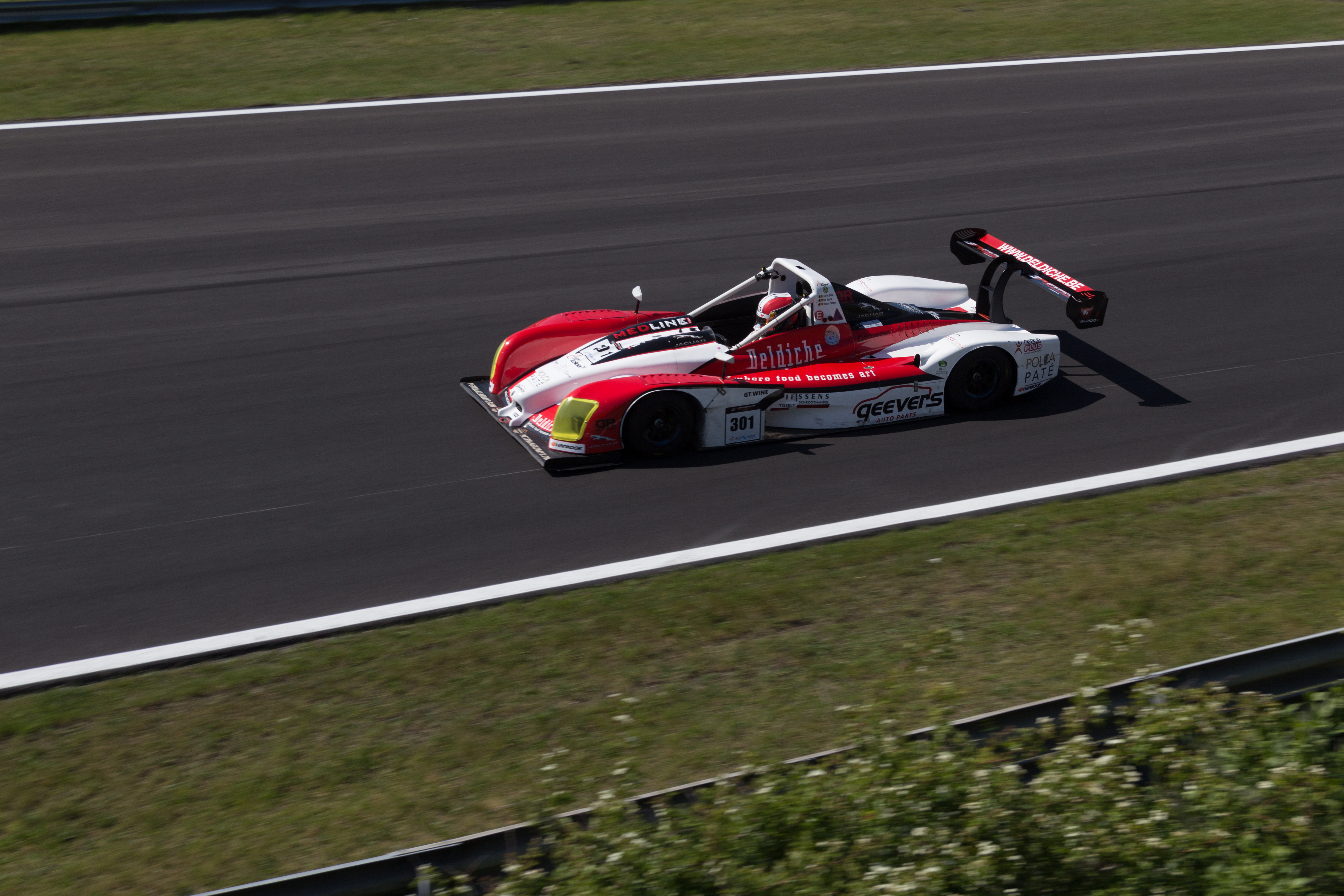 GT & Prototype Challenge at Zandvoort 2017